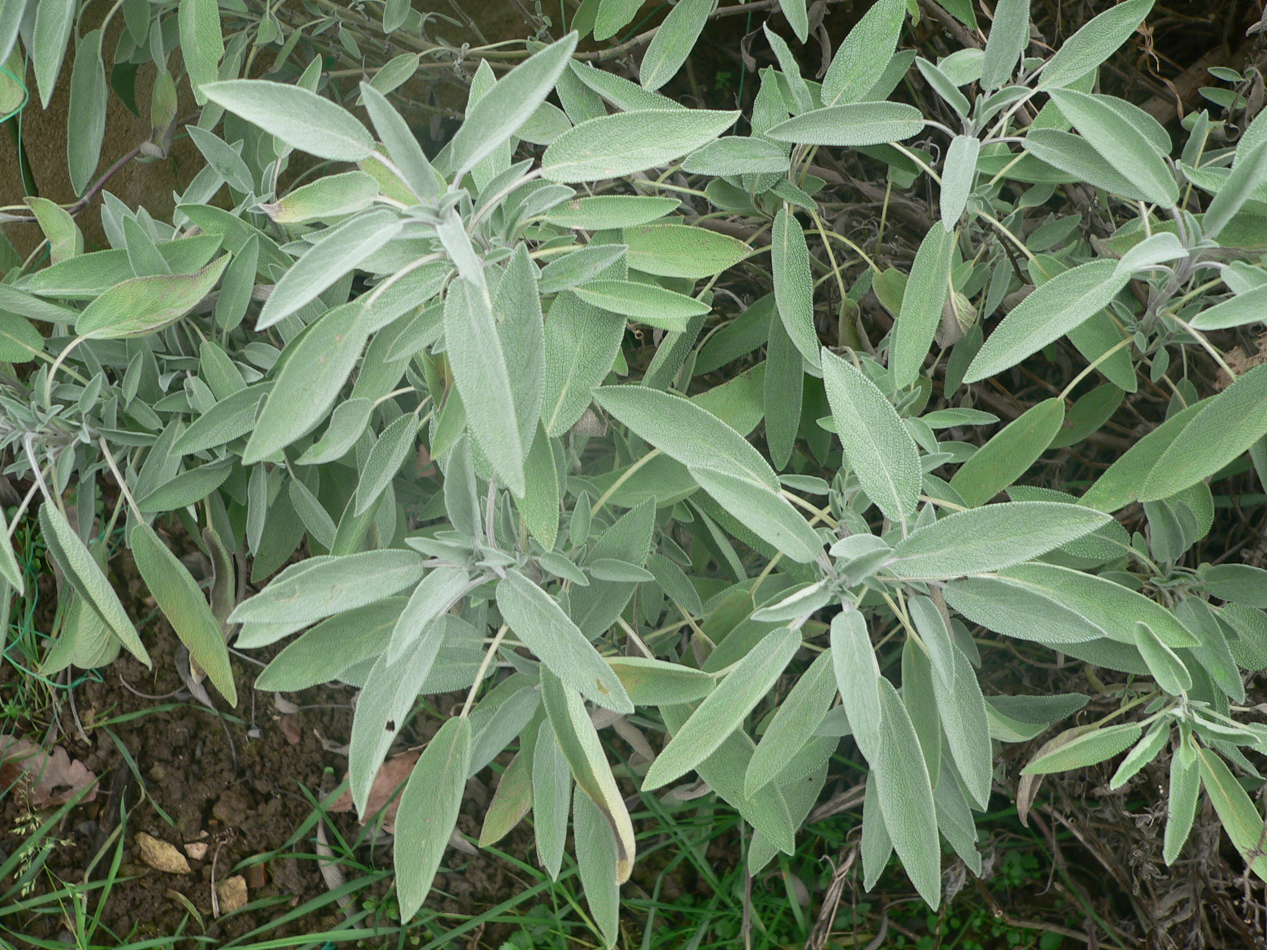 Common sage